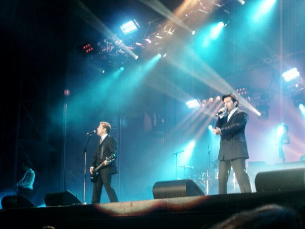 Modern Talking on their last show, in the Parkbühne Wuhlheide, in Berlin.